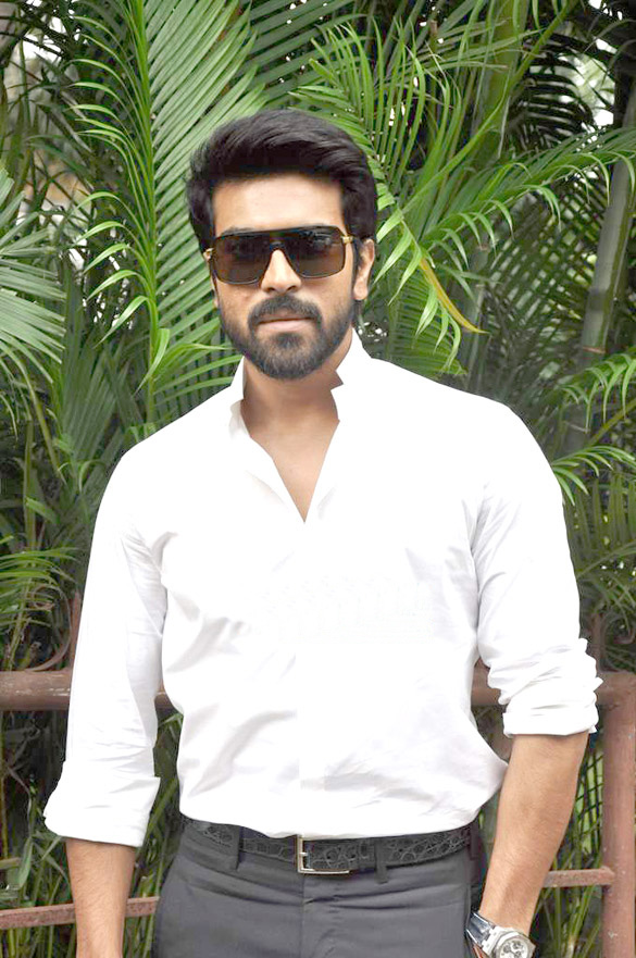 Ram Charan at Promotion of 'Zanjeer' on Jhalak Dikhhla Jaa